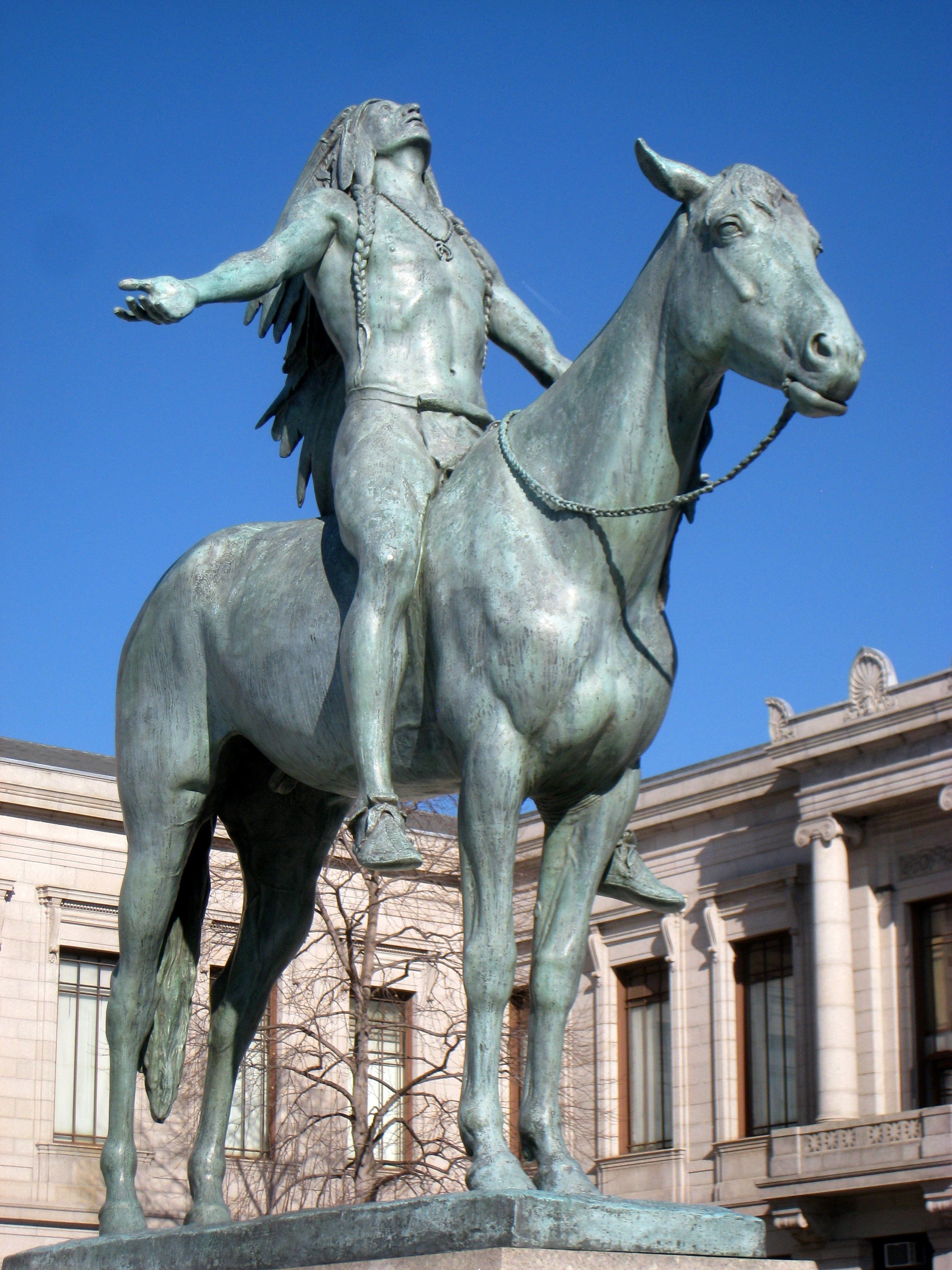 Appeal to the Great Spirit, outside of the Museum of Fine Arts, Boston, Massachusetts, USA. Sculptor Cyrus E. Dallin, 1909.